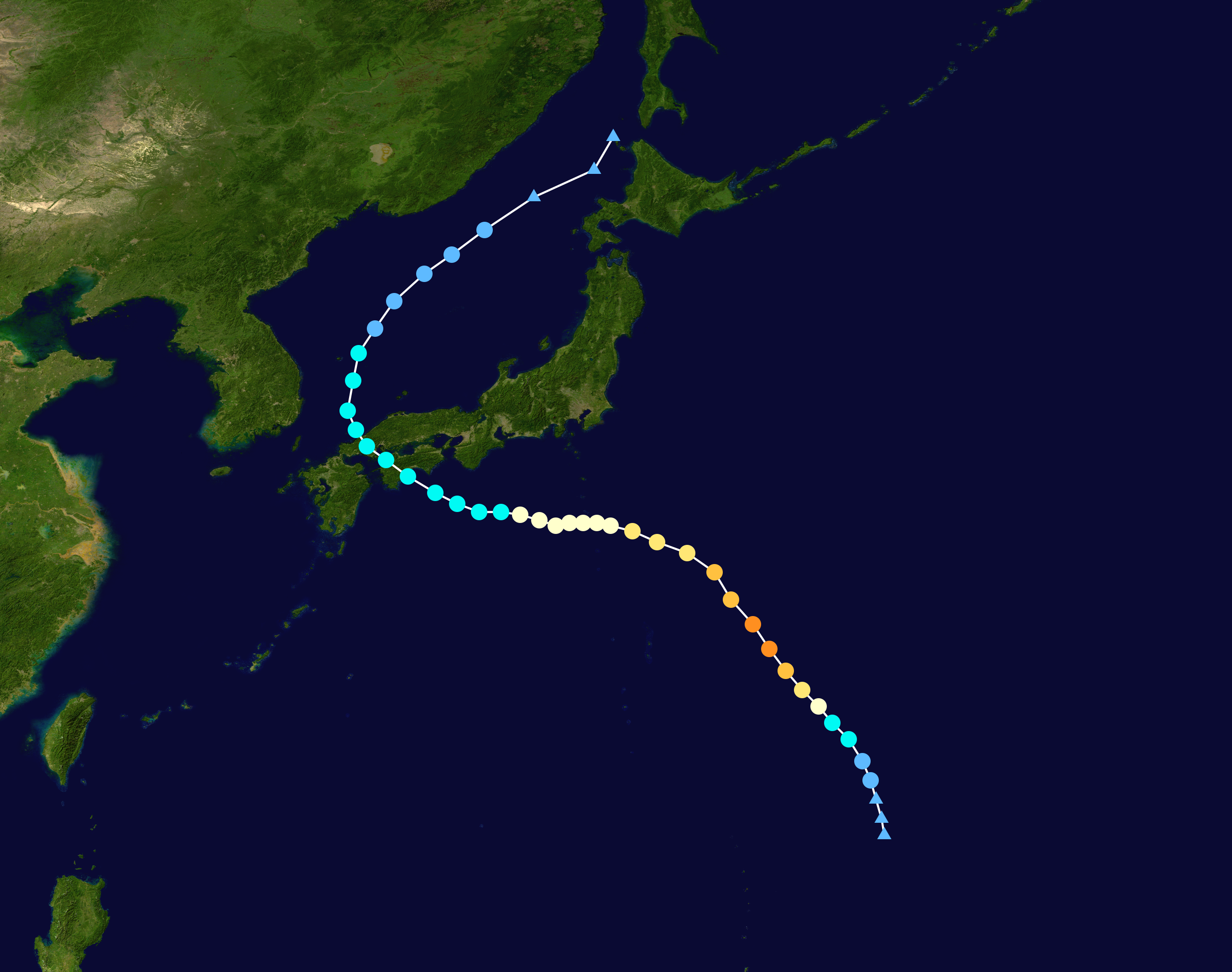 Typhoon Namtheun (2004) track. Uses the color scheme from the Saffir-Simpson Hurricane Scale.